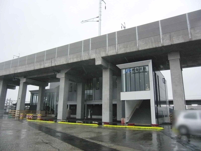 西金沢駅東口の写真です。